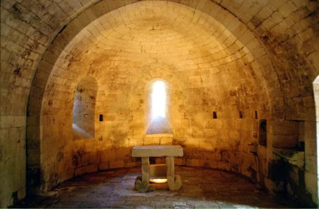 The lower chapel at the Abbey of Fontdouce, near Saintes in Charente-Maritime (France)